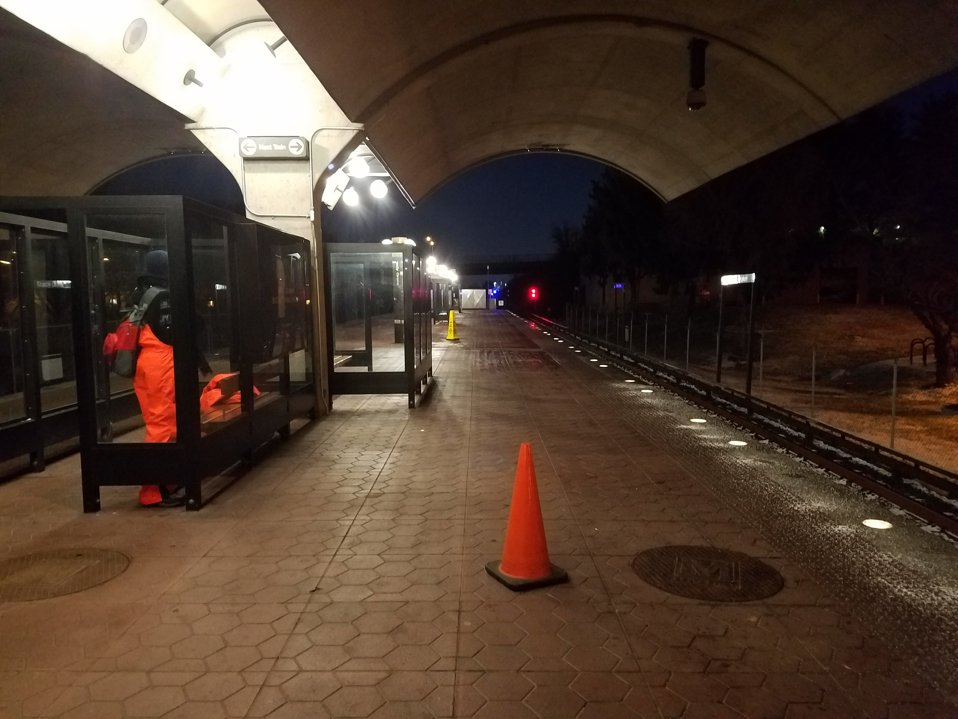 Shady Grove WMATA metro station, Derwood, Maryland, January 7, 2017